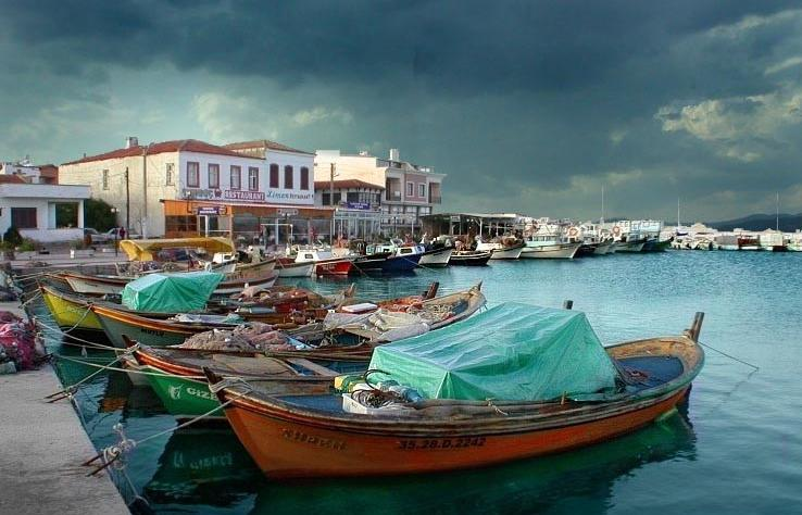 Houses along the coast in İskele quarter, Urla, İzmir, Turkey